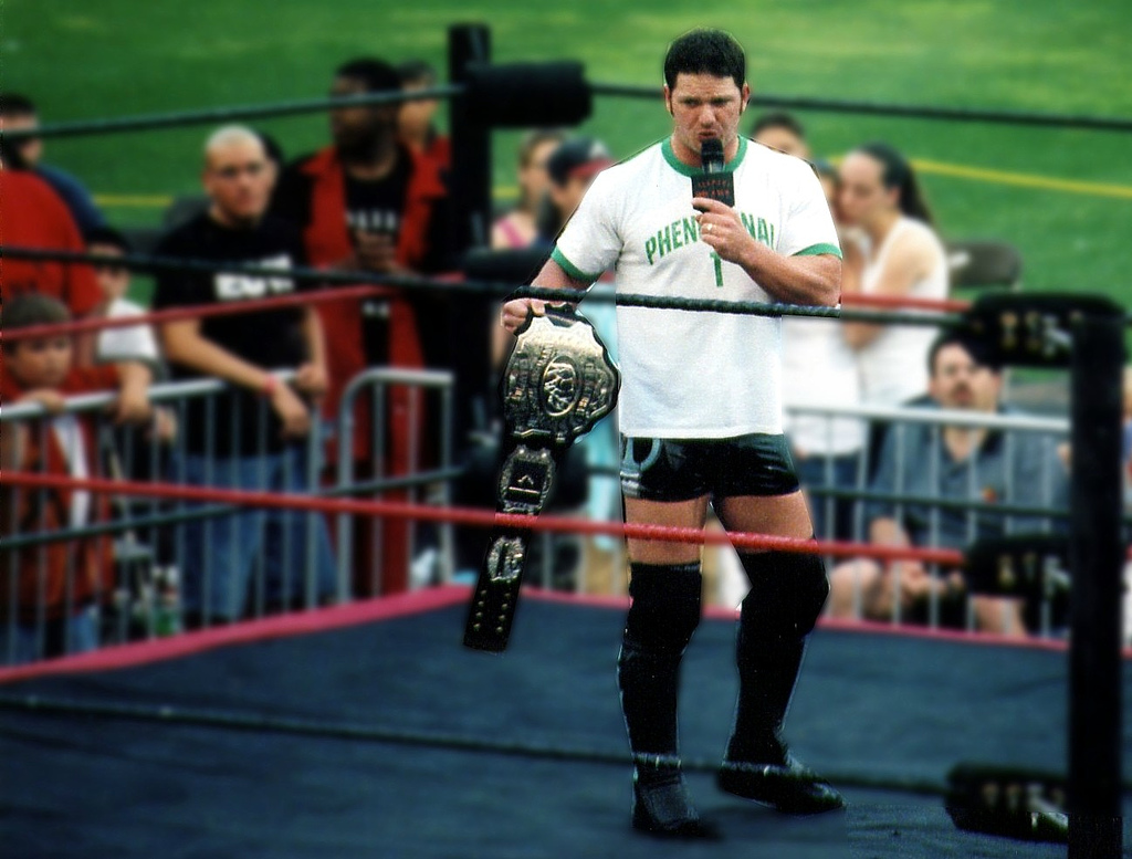 AJ Styles at the Ballpark Brawl in Buffalo, NY 7-15-05